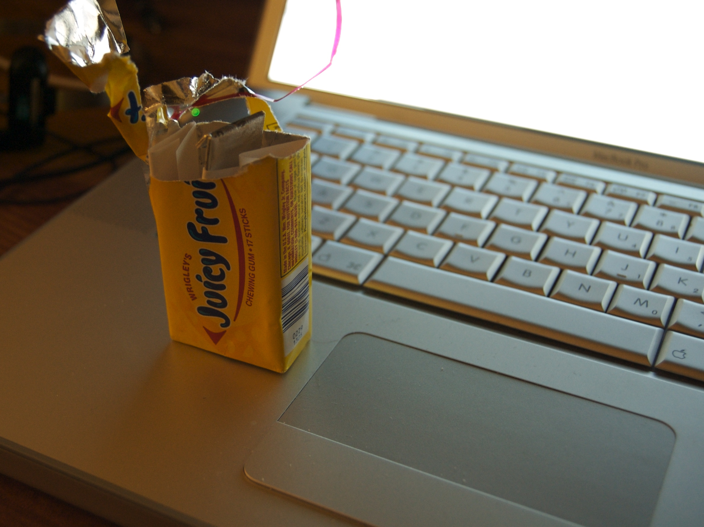 Half a pack of chewing gum (Juicy Fruit), placed on a laptop computer (MacBook Pro)